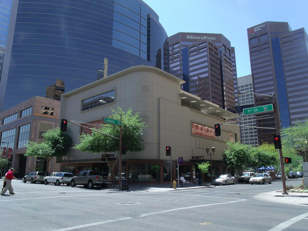 Hanny's, also known as 29-22, was built in 1925 and is located at 44 N. 1st Street in Phoenix, Arizona. It was added to the National Register of Historic Places in 1985. Reference number 85002058.